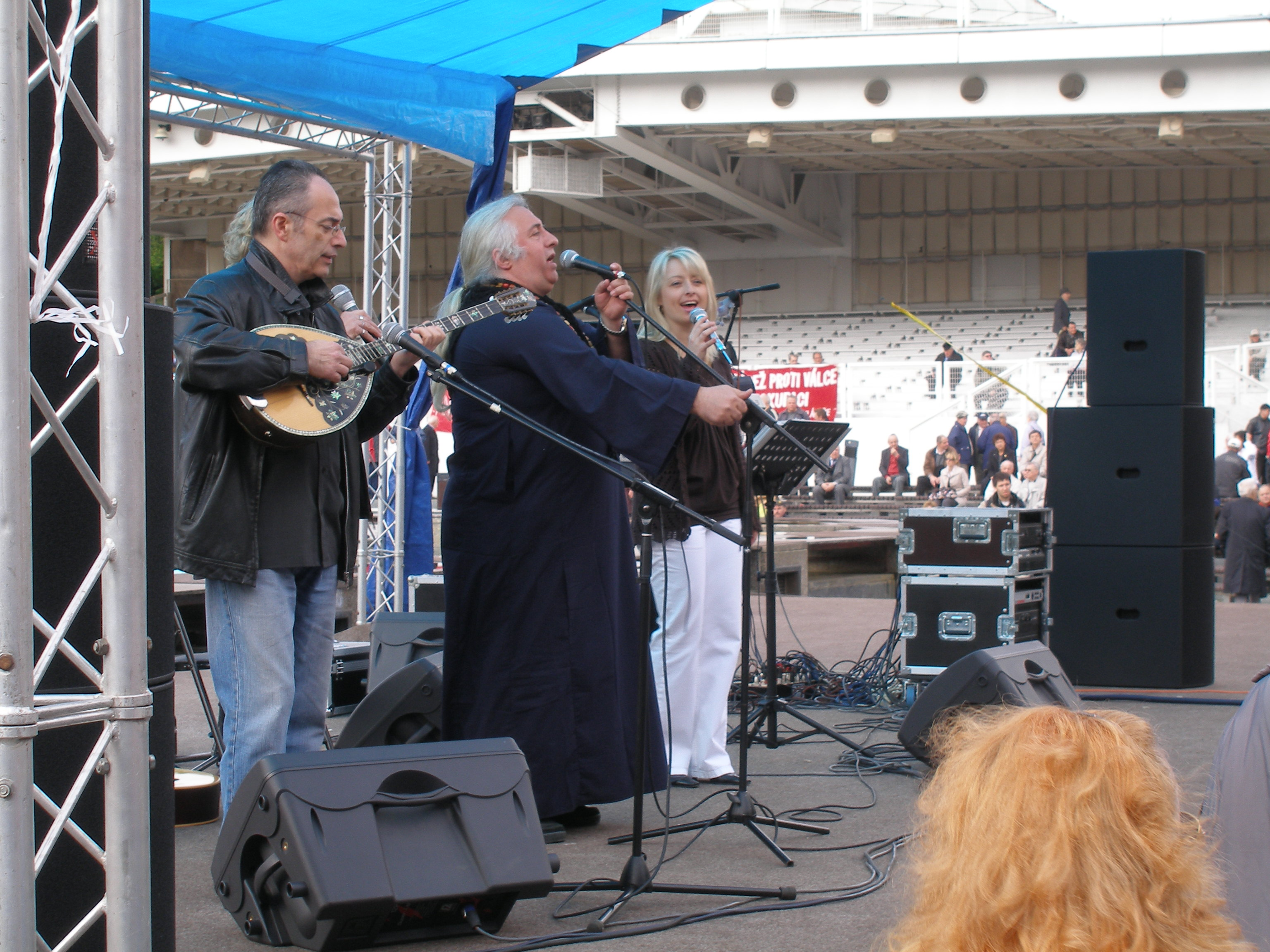 Statis Prusalis on the communist May Day 2008 in Prague